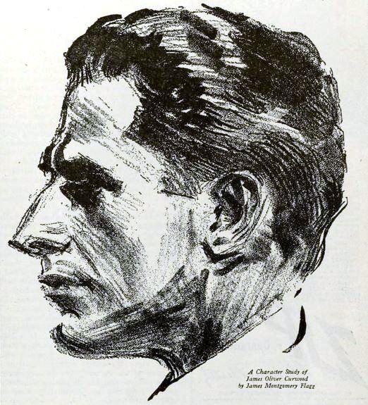 Sketch of James Oliver Curwood by James Montgomery Flagg, used in ad for Curwood's book The Country Beyond, on page 91 of the October 1922 Photoplay.